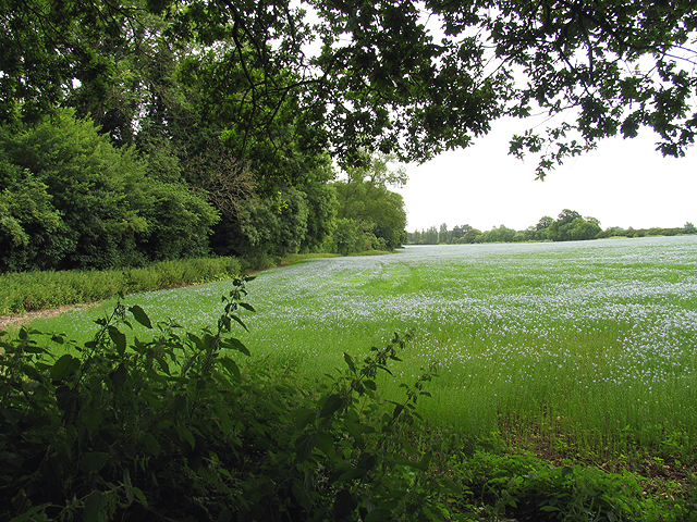 Farmland near Burghfield. This farmland is in the north eastern section of the square. The picture was taken more or less in the centre looking east. The square is largely farmland.